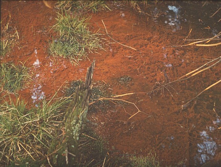 Leptothrix bulk in a ditch (bog drain)